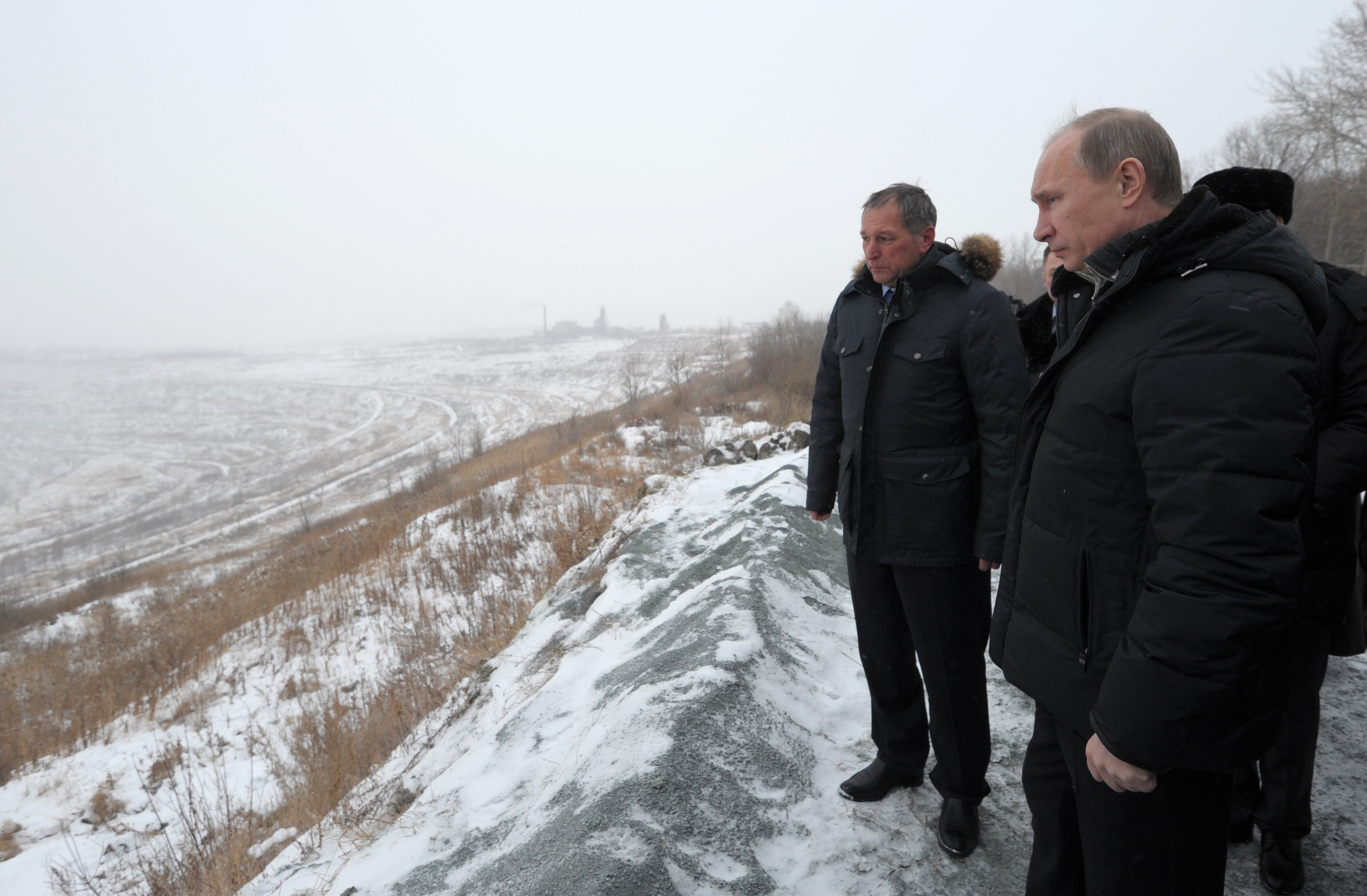 Vladimir Putin in Korkino